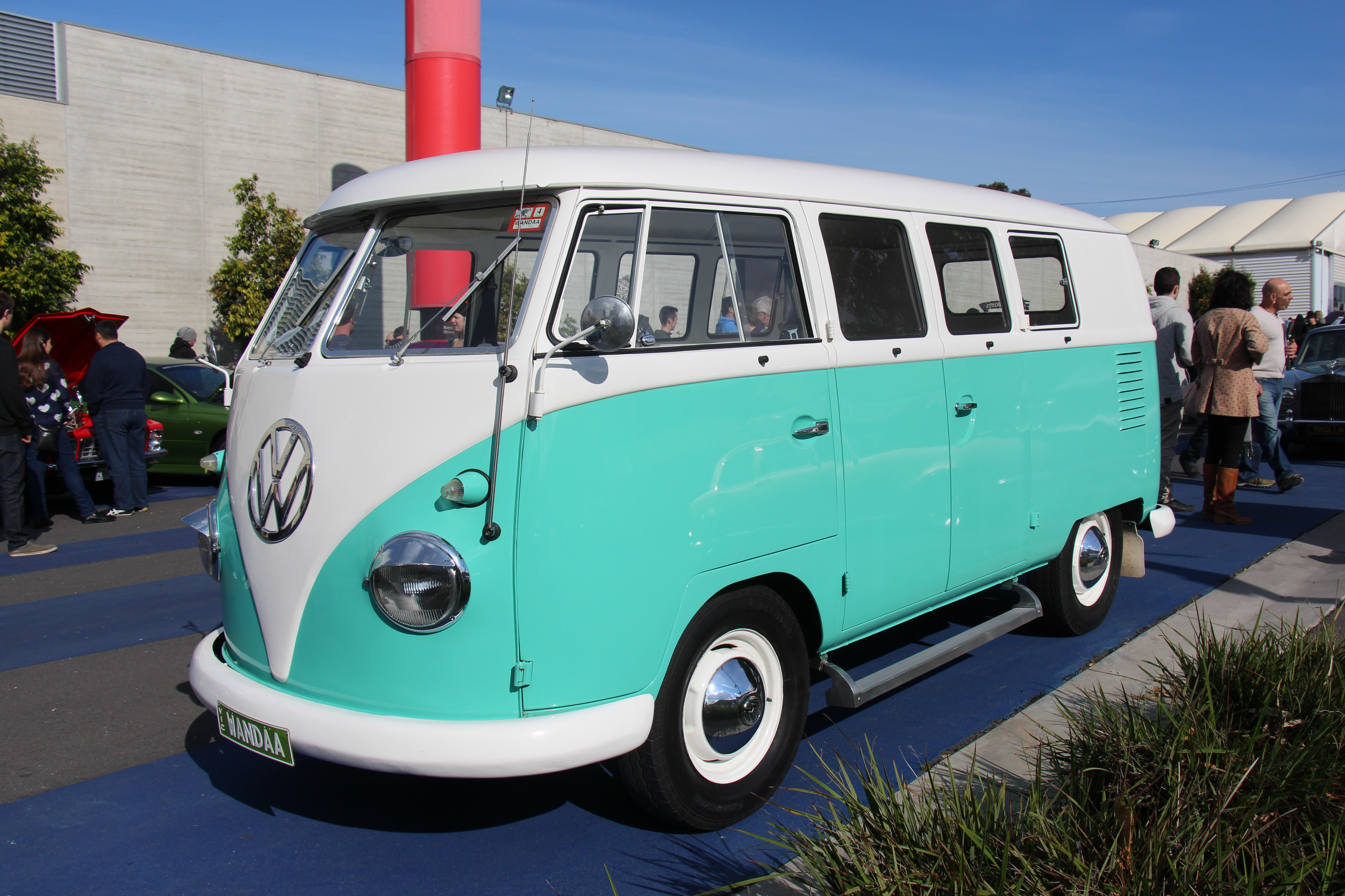 Introduced in 1949, known as the Type 2 (the Beetle was the Type 1) 1949; only the Panel Van (no side windows or seats) and Kombi (some seats and some side windows) were available. 1300cc 1950; Microbus introduced (full side windows) 1131c 1951; Deluxe Microbus (samba) introduced with skylight windows and a canvas sliding roof, also Westfalia Camper and Ambulance 1952; Pickup available, Deluxe got chrome trim 1956; new body; roof extended over windscreen, 9 engine air louvres (was 8), bullet indicators replace semiphores on export models, smaller engine cover 1300cc 1957; larger tail lights 1961; Large oval indicators replace bullets 1963; air engine louvres now pressed inwards, push button door handles 1500cc 1964; Deluxe models no longer have rear qtr windows 1965; front indicators now amber 1968 The new Series II Bay introduced